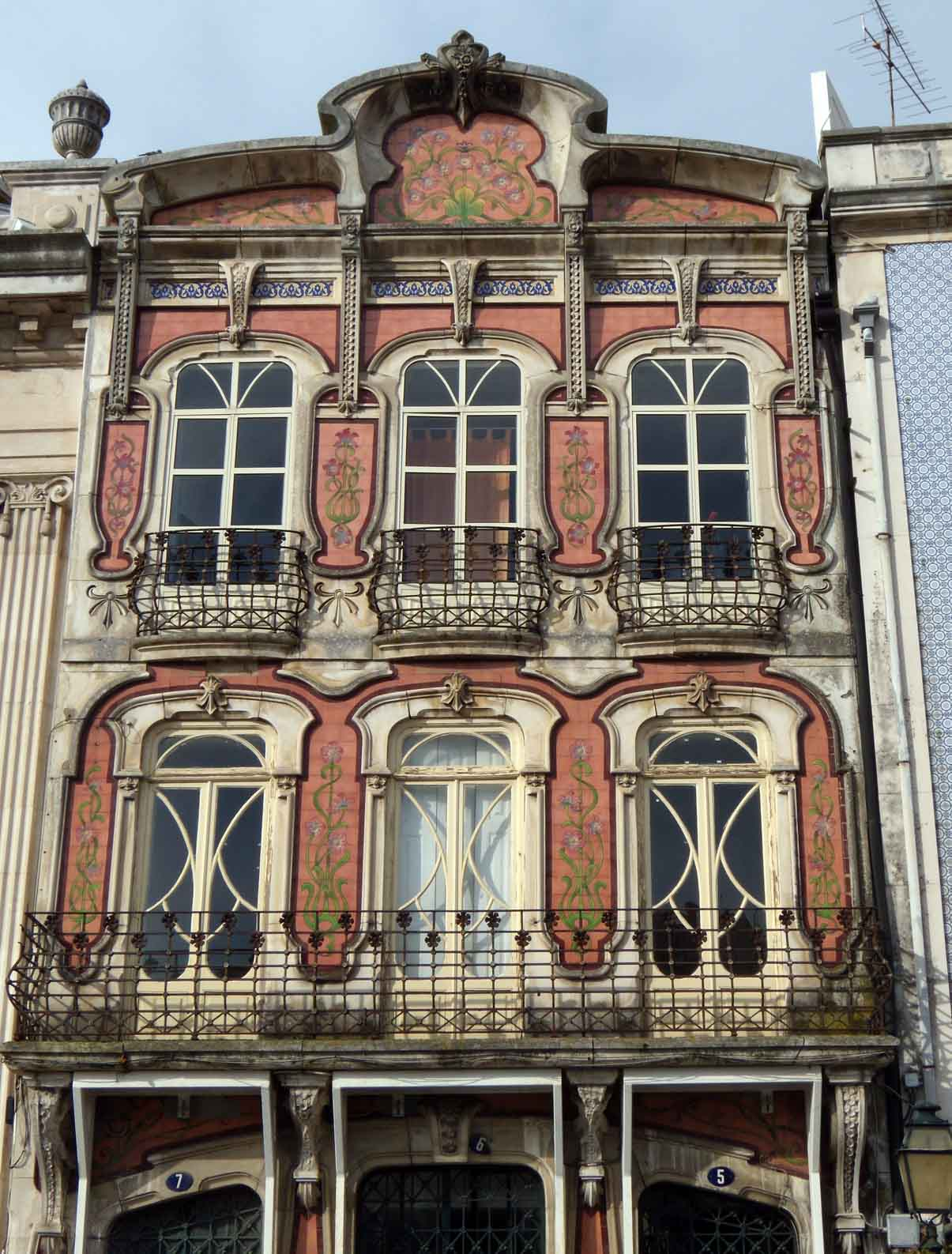 Art Nouveau house - Aveiro - Portugal